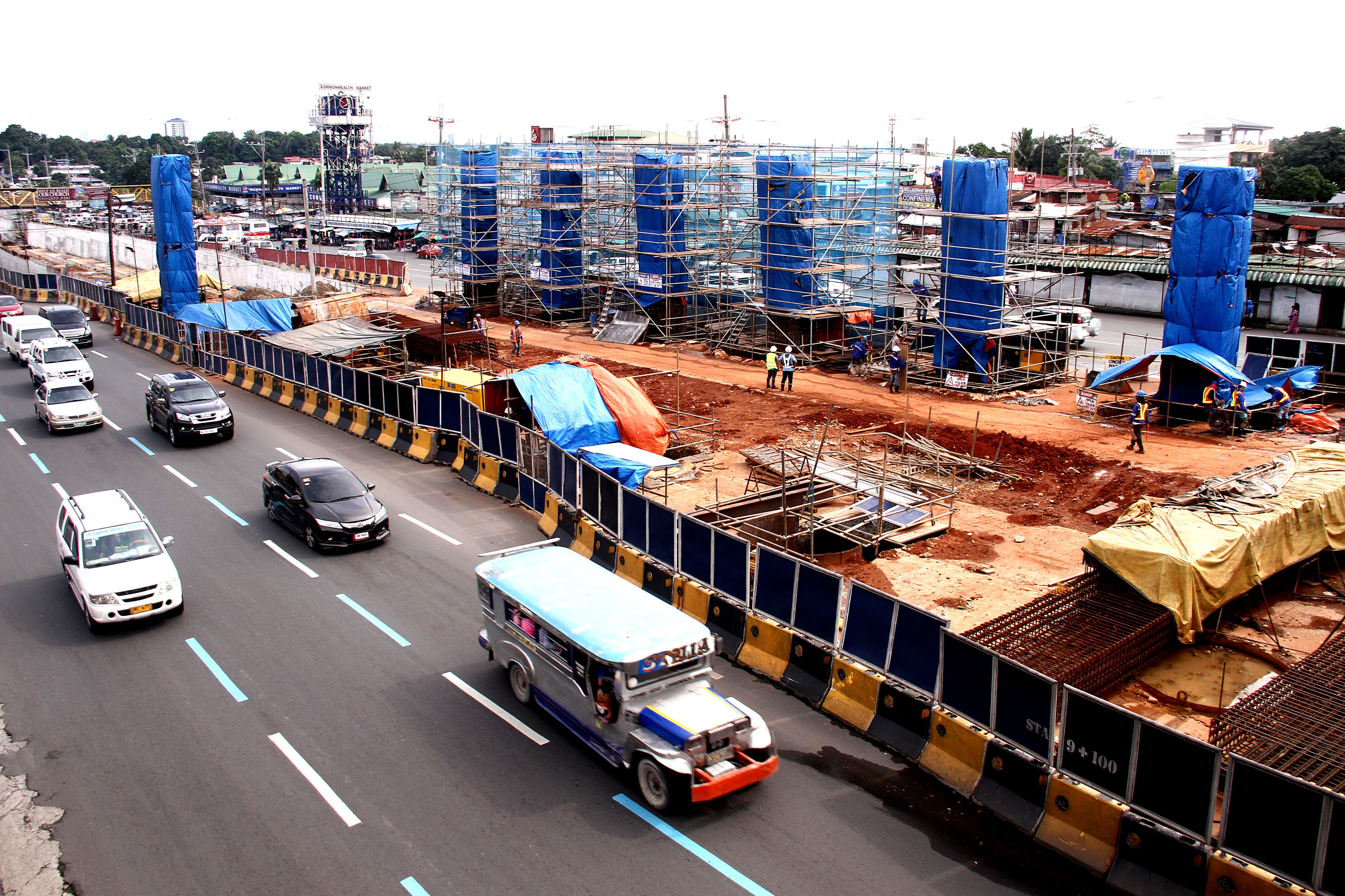 Contractors work on the Manila Metro Rail Transit-7 (MRT-7), which will have an 22.8-km elevated platform from North Avenue, Quezon City to San Jose del Monte, Bulacan on Thursday (August 2, 2018). The new line is estimated to carry 28,000 passengers per hour and 350,000 passengers a day in each direction. The line is expected to start operations by August 2019.